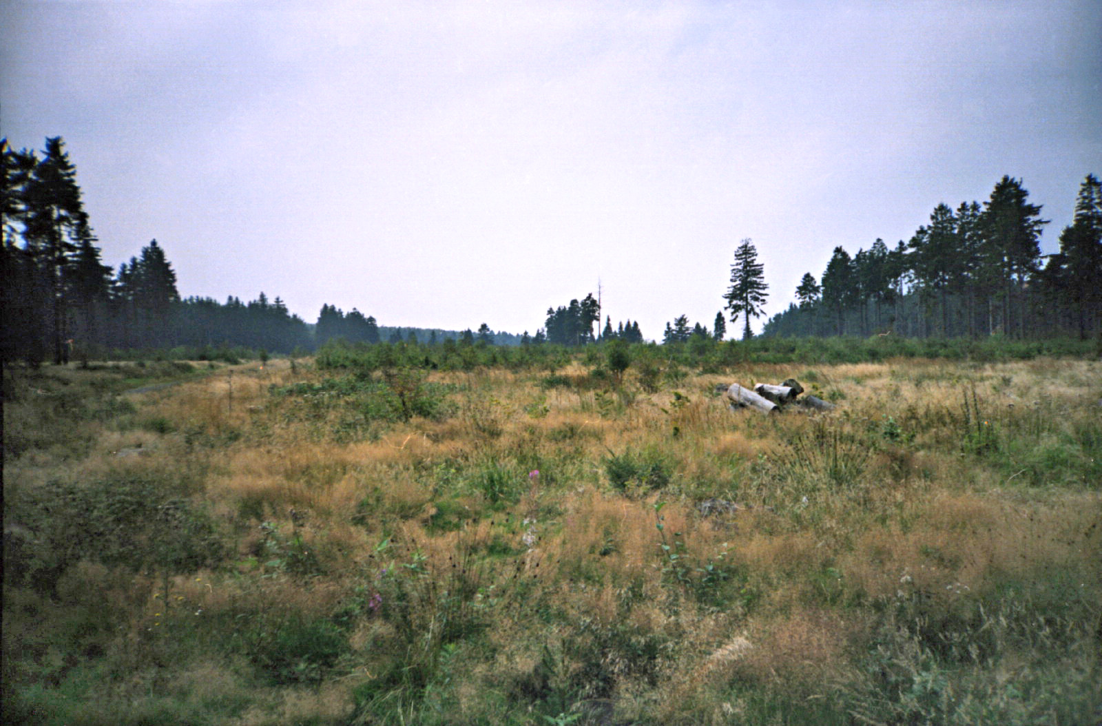 The spring of the Nidda in the Vogelsberg Mountains, a Bog.